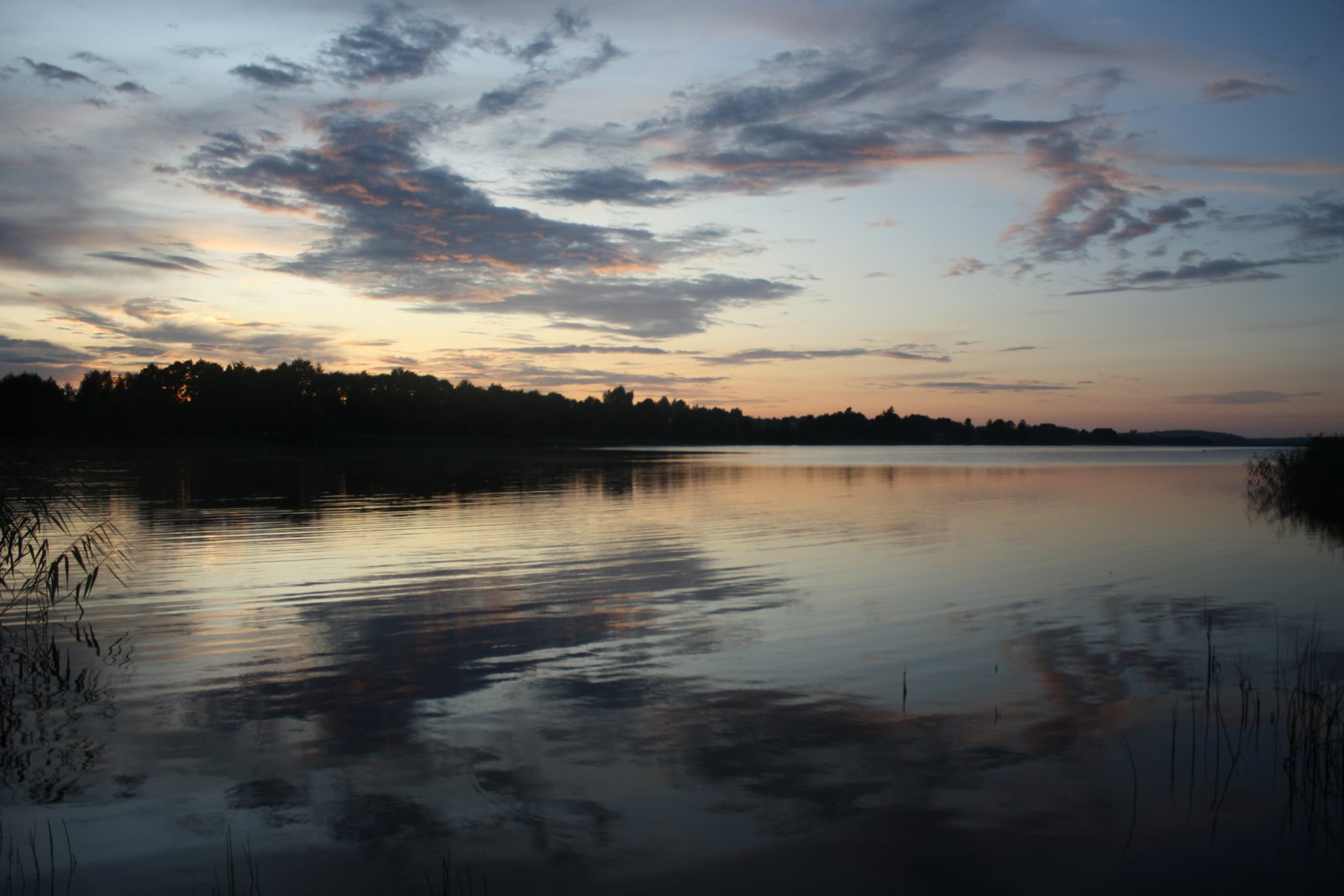 Gaładuś Lake (Podlasie Voivodeship)